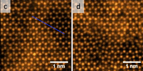 Atomic resolution AADF-STEM images of (c) pristine and (d) irradiated molybdenum diselenide (1 × 1015 He+/cm2